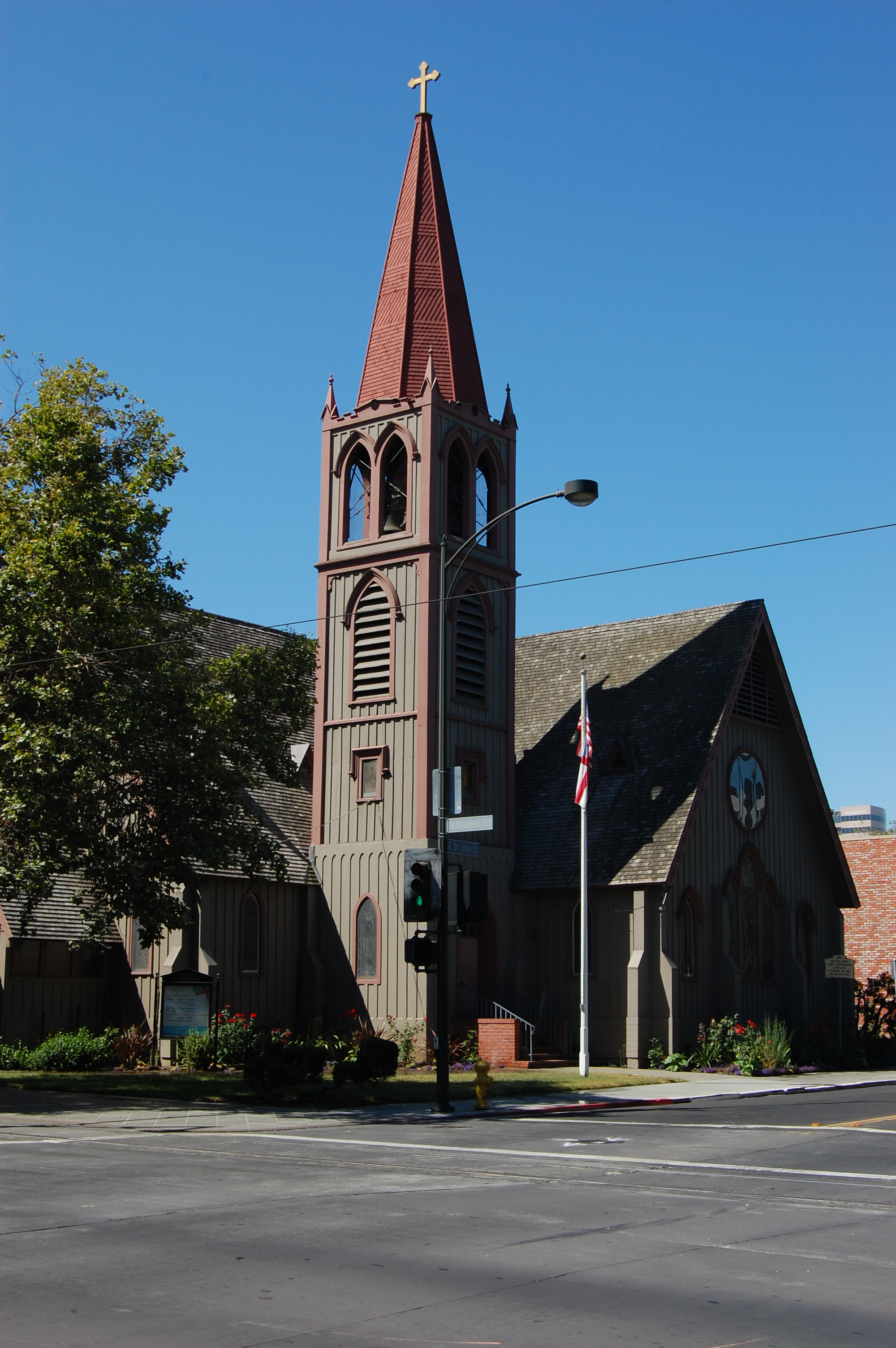 Trinity Episcopal church. 81 North Second Street. San Jose, California, USA